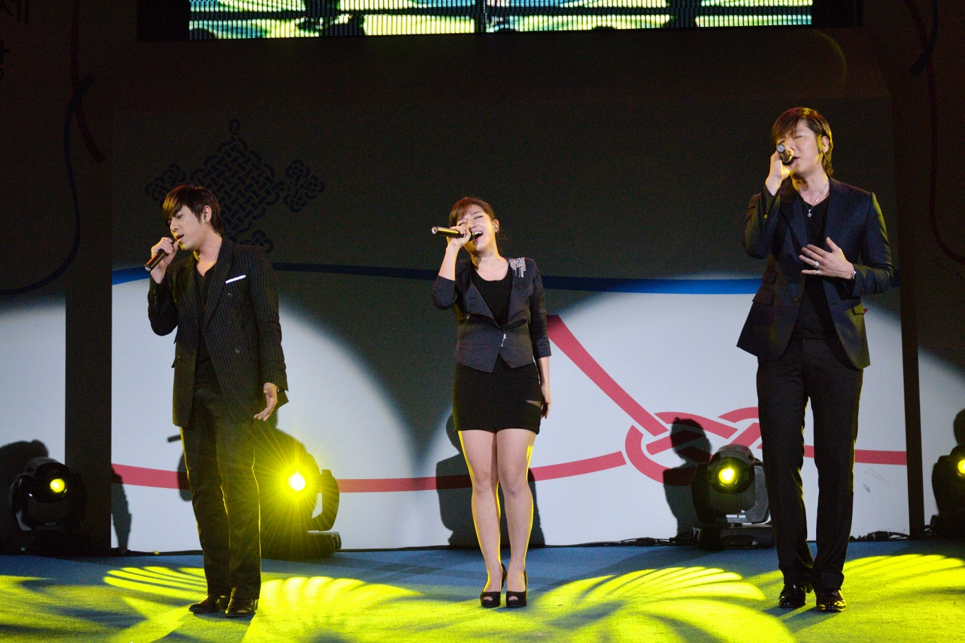 The two-day festival kicked off on October 1, with an opening ceremony under the slogan “Coexistence and co-prosperity for the 21st century,” followed by K-pop and cover dance contests alongside other cultural events. Various outdoor concerts were organized the next day, providing a unique chance to appreciate and compare the two nations’ traditional performing arts. A number of culture ministry-sponsored performances of fusion traditional Korean music and interpretative traditional dances were also performed on the stage. That evening, a K-pop concert featuring Korean idol groups including Miss A marked the highlight of the festival, reconfirming the heightened attention on Korean pop music. Throughout the event, visitors enjoyed Korea’s culinary culture, including tastings of savory Korean dishes and spices as well as a special cocktail performance involving makgeolli, a traditional Korean alcohol made with rice. The festival brought to the Japanese capital a variety of hands-on activities designed to offer an experience with Korean traditions and culture, such as trying on Hanbok, or Korean traditional clothing.